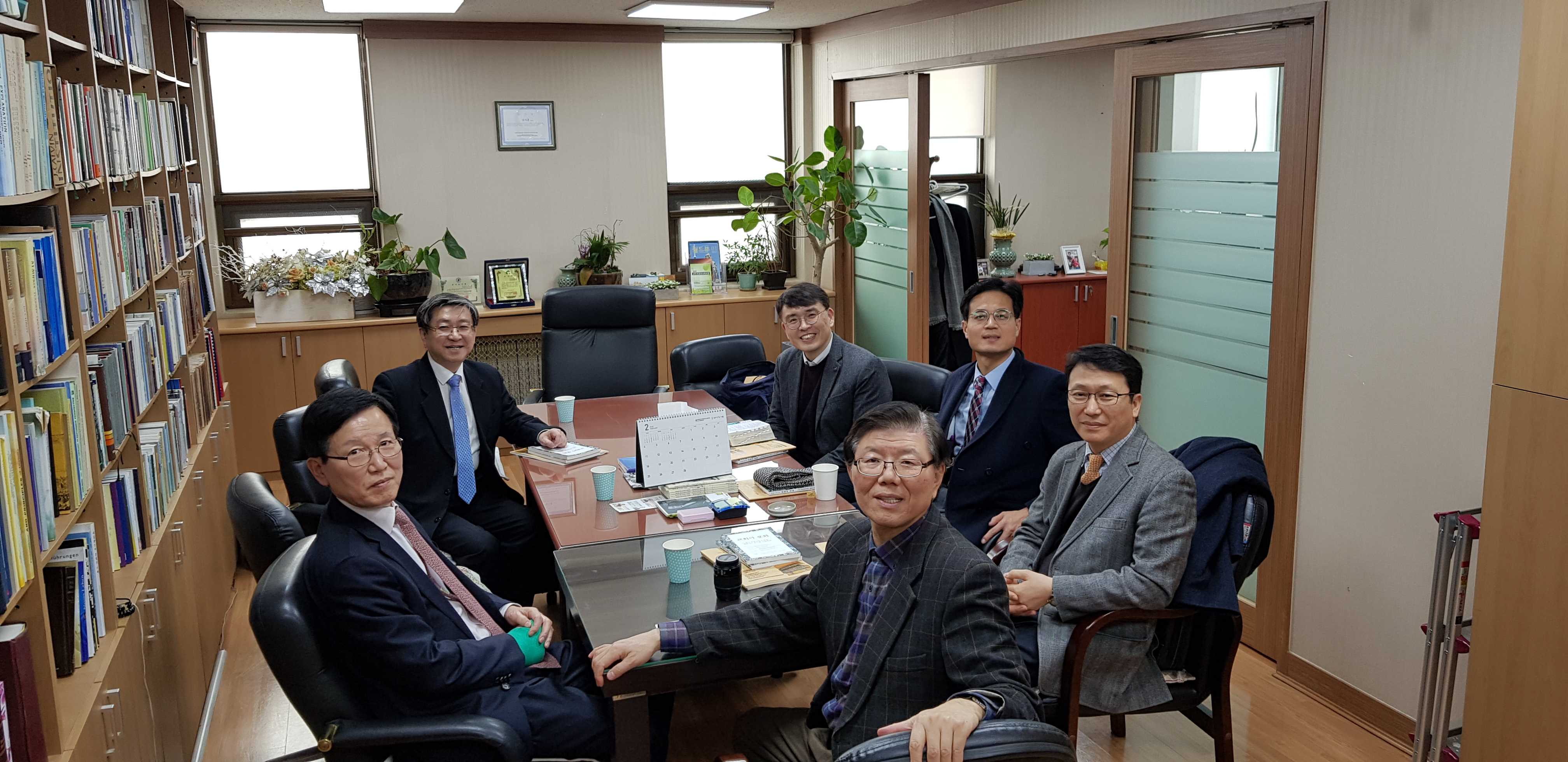 Preparing for Korea Biblical Theology Society Conference, 5th. Feb. 2018